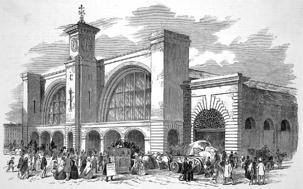 Kings Cross station in London as featured in the Illustrated London News in 1852.